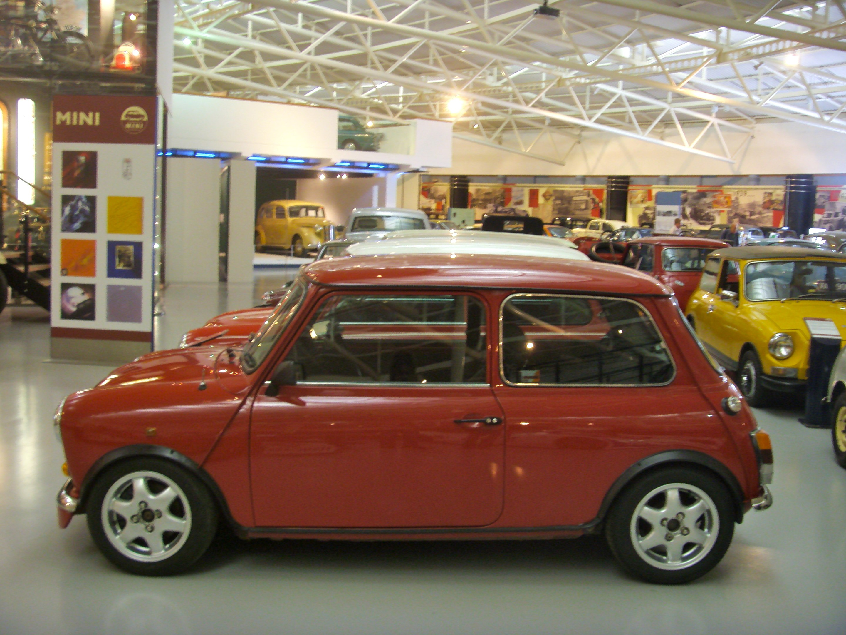 Mini with increased track and K-Series engine.